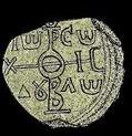 Seal (state seal) of bulgarian kan Telerig.